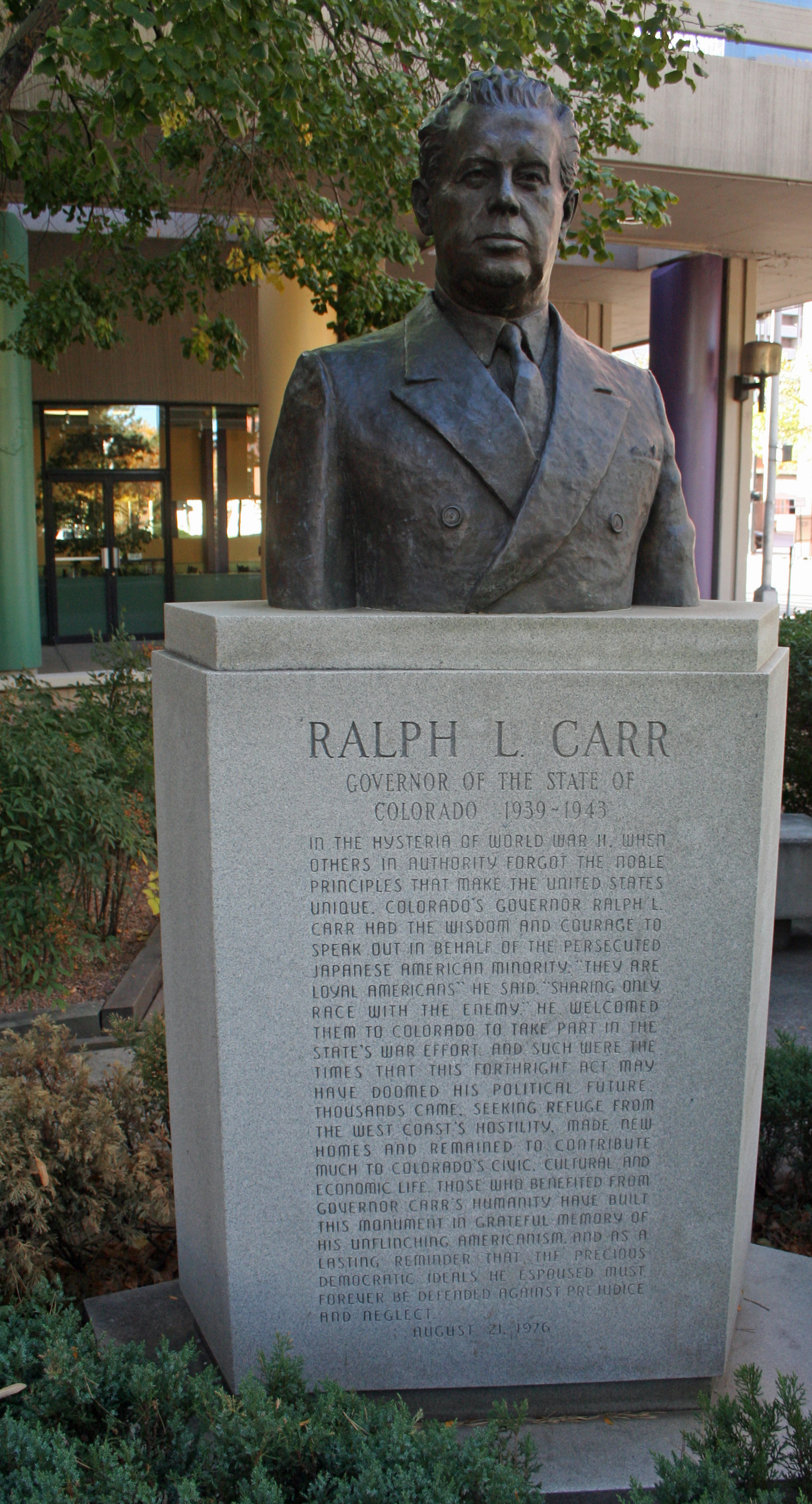 A statue of former Colorado governor Ralph L. Carr